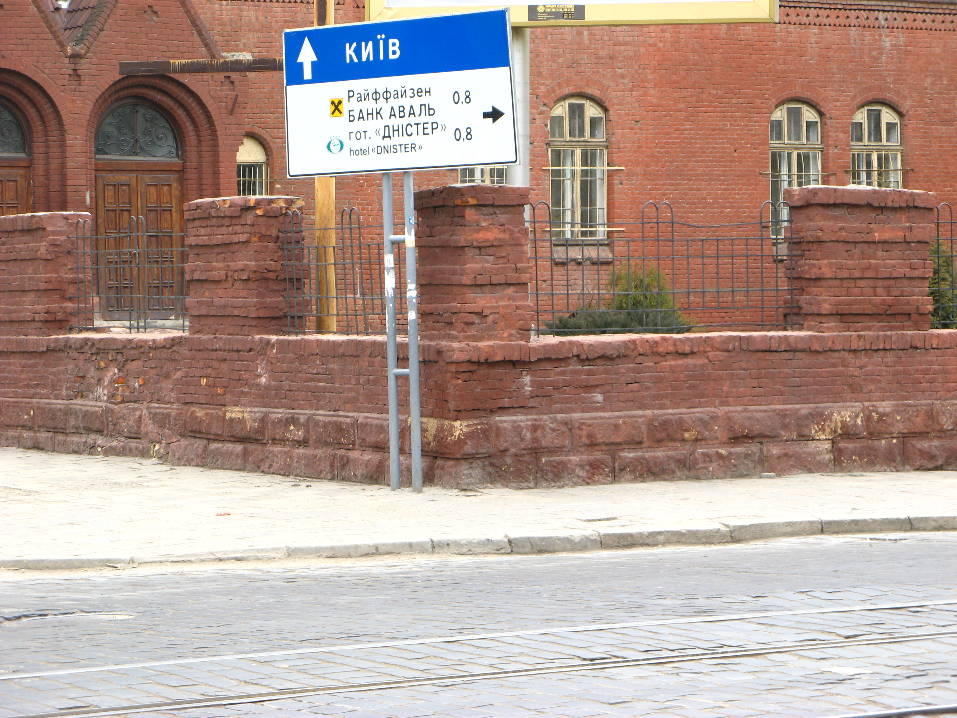 Львівська правнича гімназія